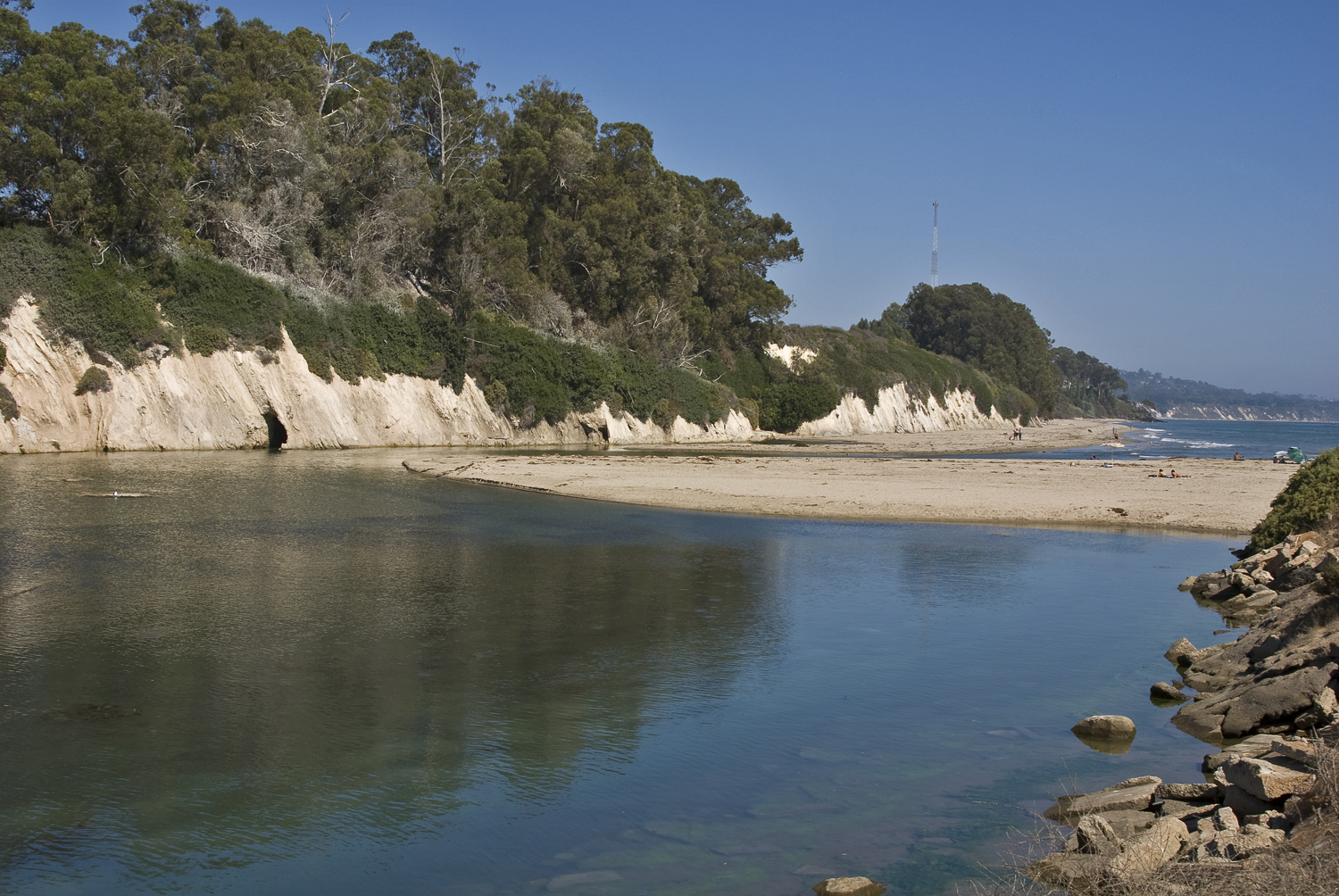 Edge of the Goleta Slough in Santa Barbara County, California.